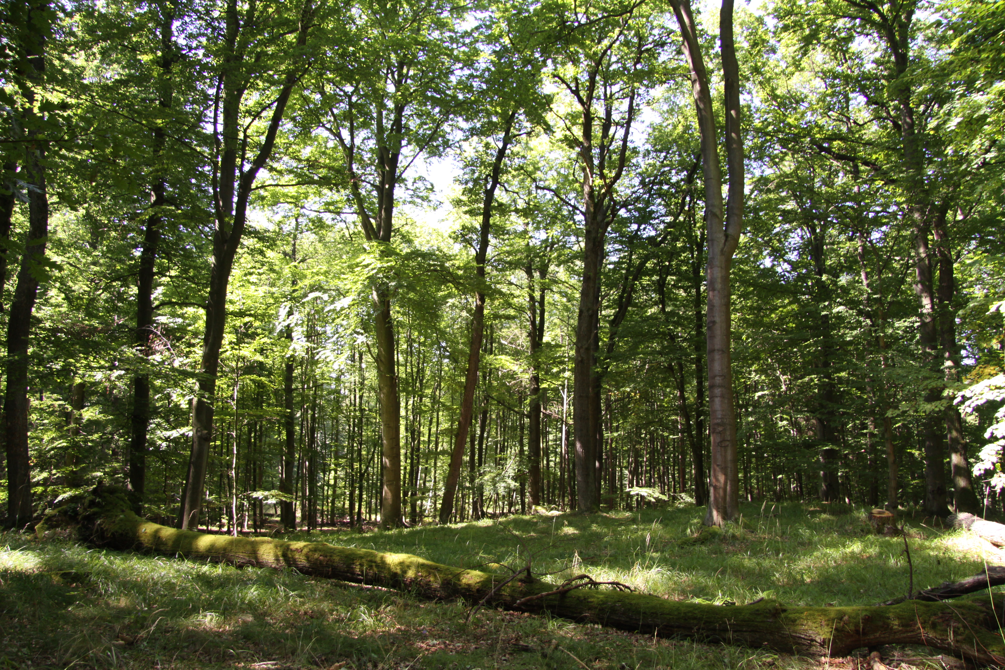 Natural reservation called "Čertova hora u Vráže", Písek District, Czech Republic - Google Maps - Google Earth